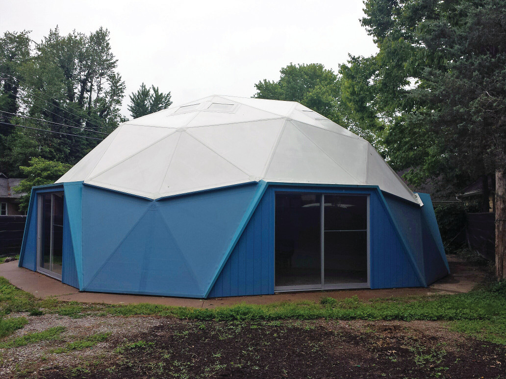 Exterior of preserved prototype geodesic dome home designed by and lived in by R. Buckminster Fuller and wife Anne Hewlitt at 407 S. Forest Avenue, Carbondale, IL. Exterior preservation was completed in the fall of 2014 by Dome Inc. of Minneapolis